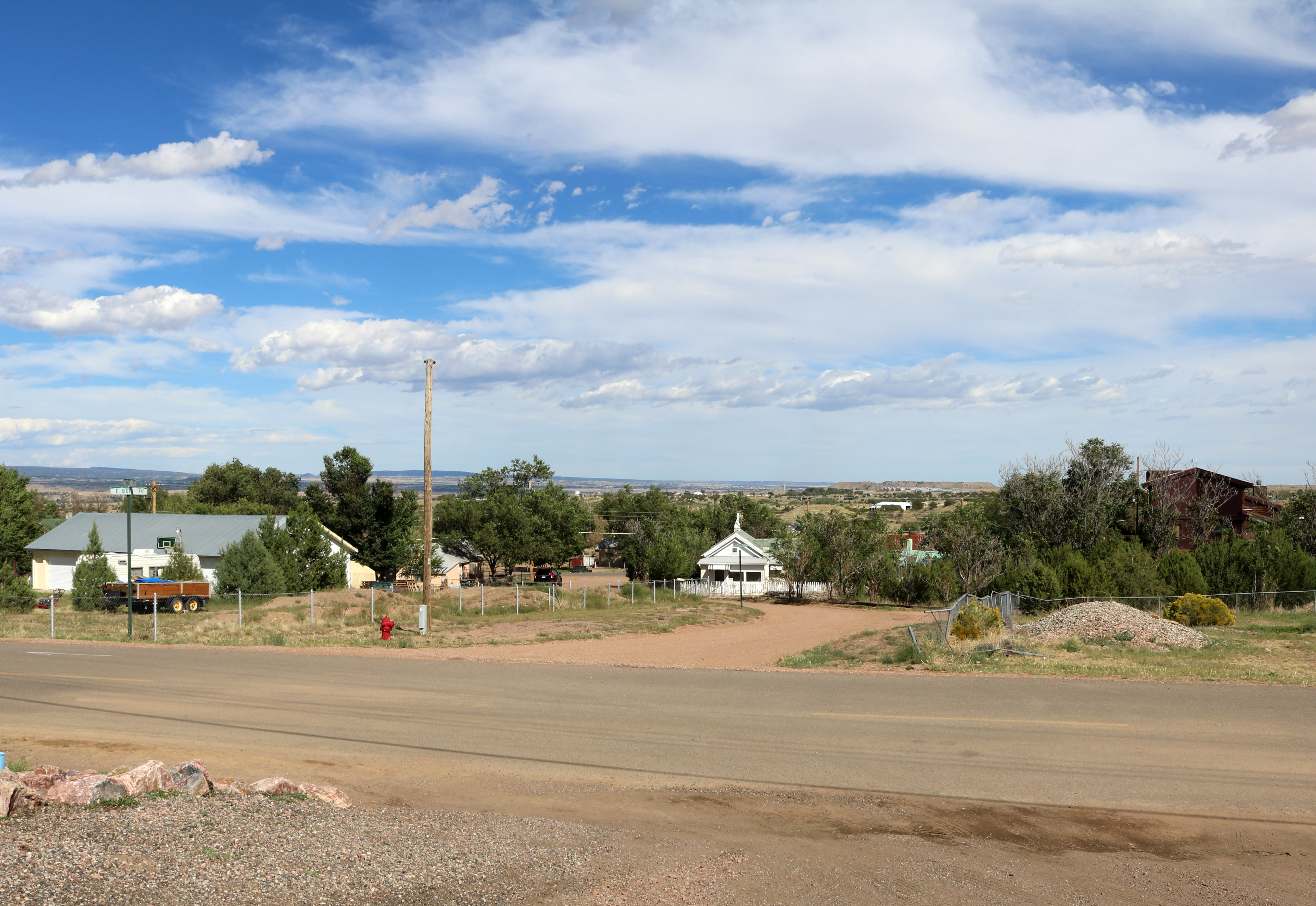 A view of Coal Creek, in Fremont County, Colorado. The view is looking east-northeast across Main Street from the front steps of the town hall at 615 Main Street.